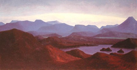 Stórisjór og Vatnajökull (Stórisjór and Vatnajökull) by Þórarinn B. Þorláksson (1867-1924). Made in 1921. Source and copyright Obtained from listasafn.is, the website of the National Gallery of Iceland. Link: Published (in colour) in "Björn Th. Björnsson (1964). Íslenzk myndlist. Reykjavík, Helgafell." vol. I, page 84. This may or may not be the first publication. Note that even photographs which are not artworks have a copyright protection of 50 years from creation in Iceland. Thus it is not clear that this image is in the public domain in Iceland.